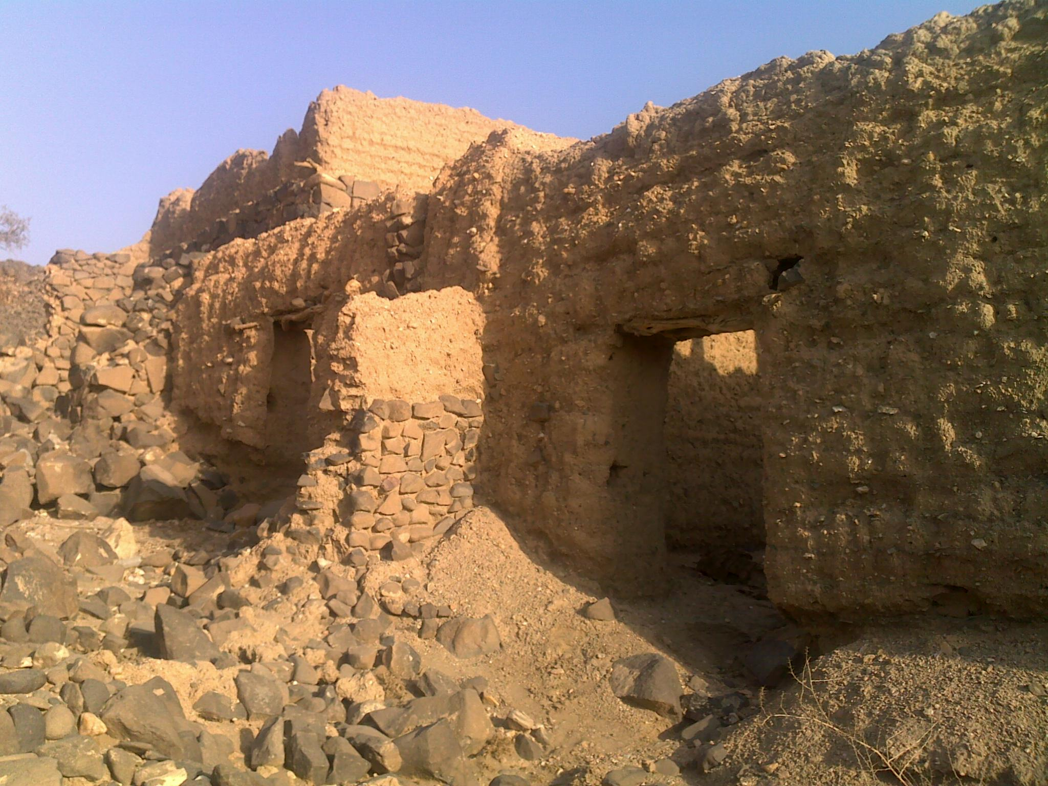 Ruined castle in Ash Sha'arah (Mecca, Saudi Arabia).